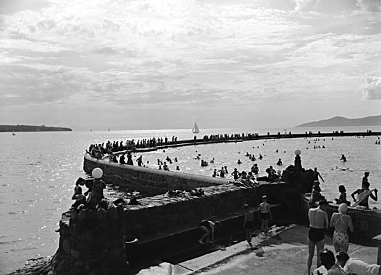 Second Beach Tidal Pool